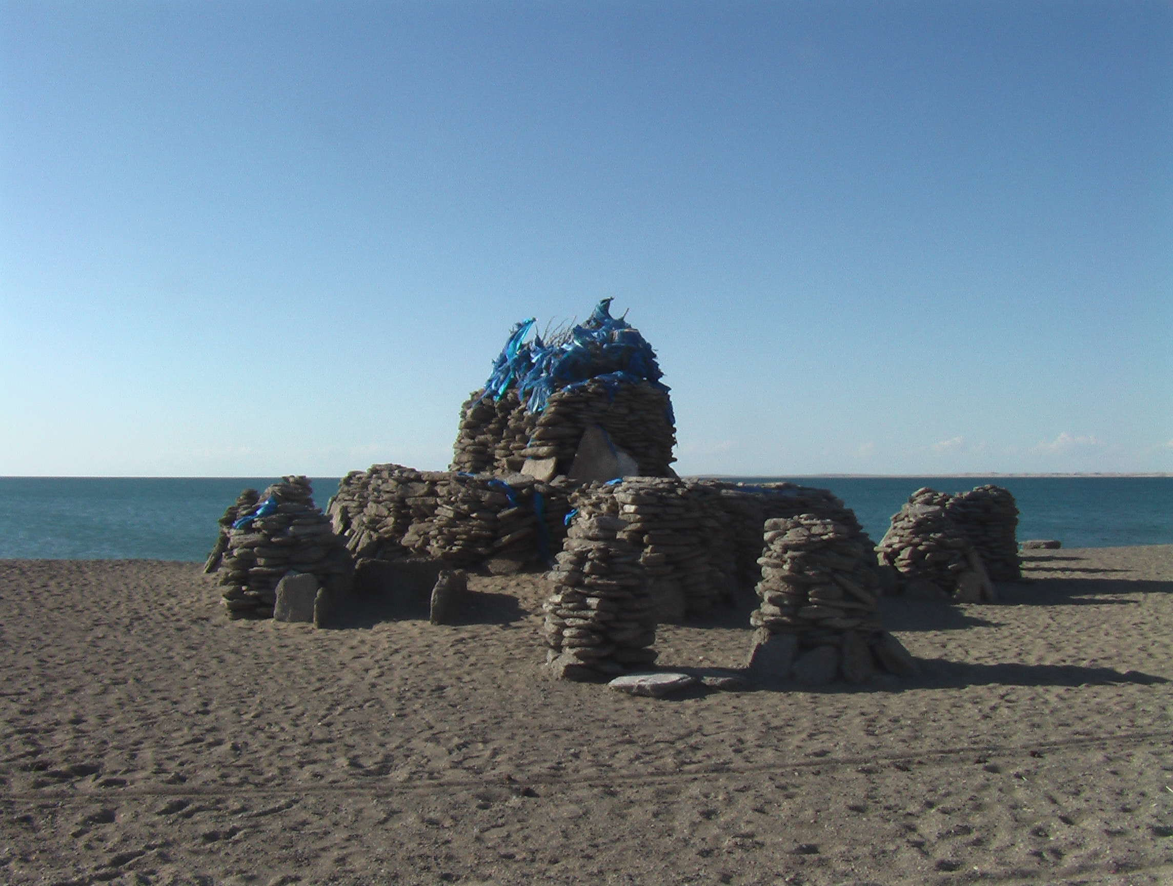 Dörgön Nuur lake, West Mongolia, Khovd aimag, Janjin Ovoo (sacral monument) at the southern shore.JPG